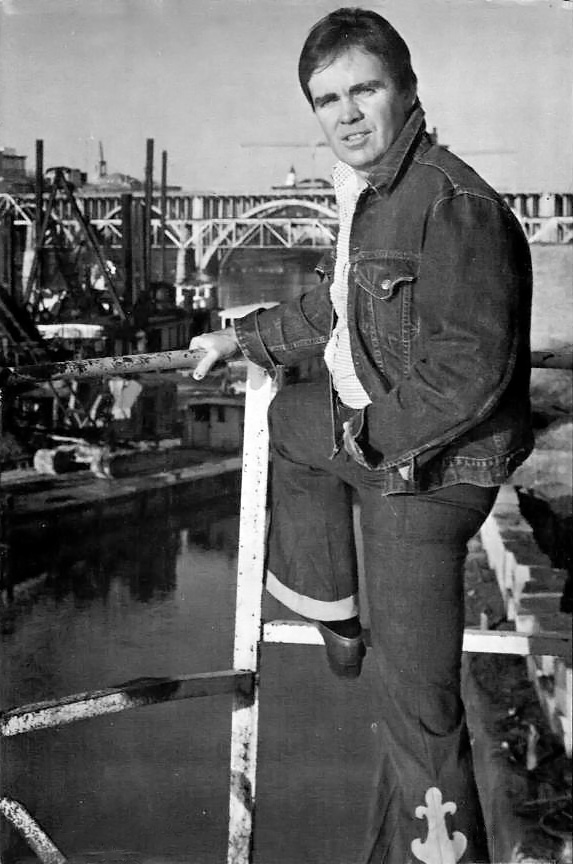 Portrait of Cormac McCarthy from the dust jacket of his fourth novel, Suttree.